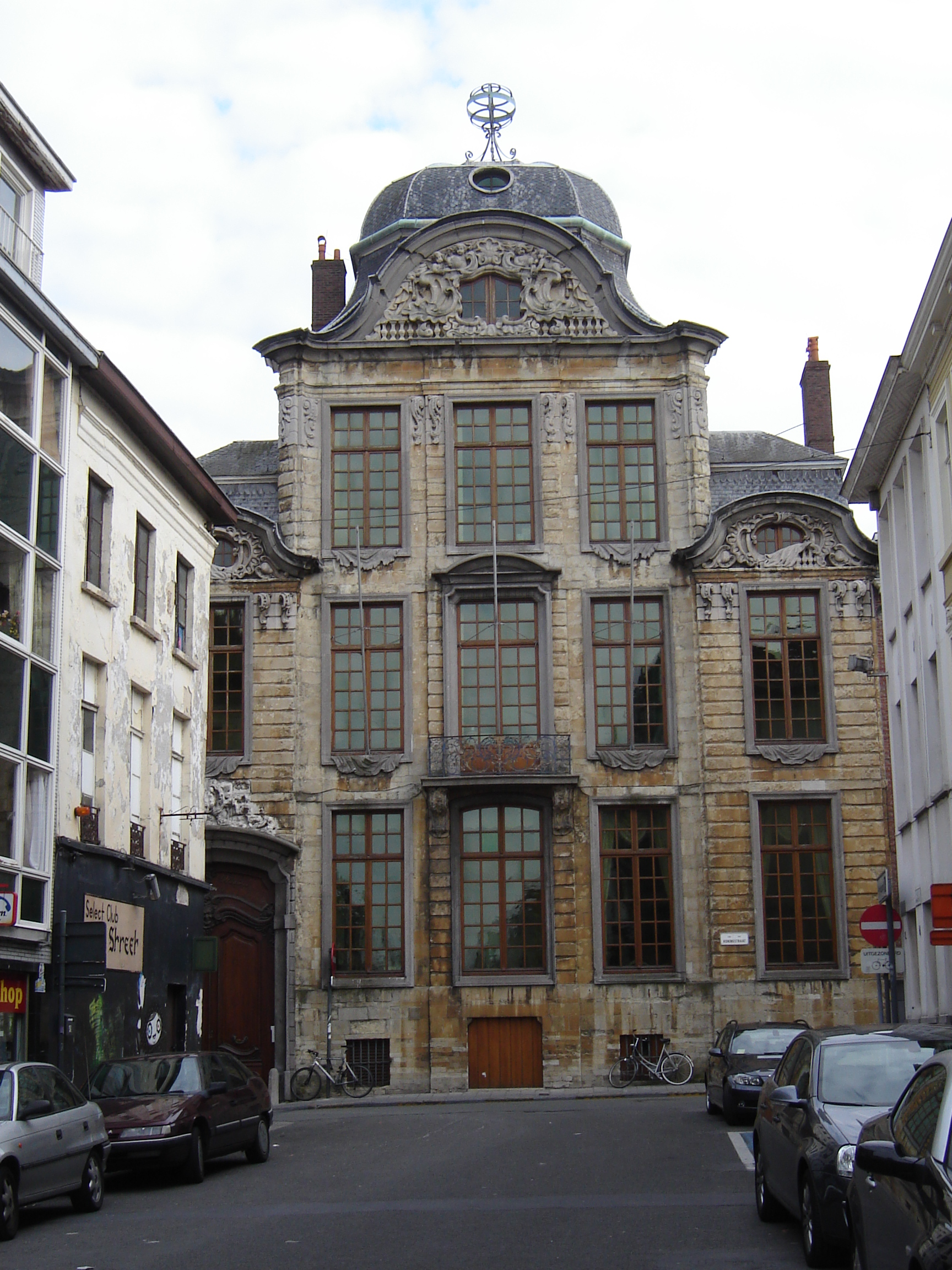 "Hotel van Oombergen" (former Dammansteen) in Gent. Front façade. 18th century. Since 1892 seat of the Koninklijke Vlaamse Academie voor Taal- en Letterkunde. Gent, East Flanders, Belgium